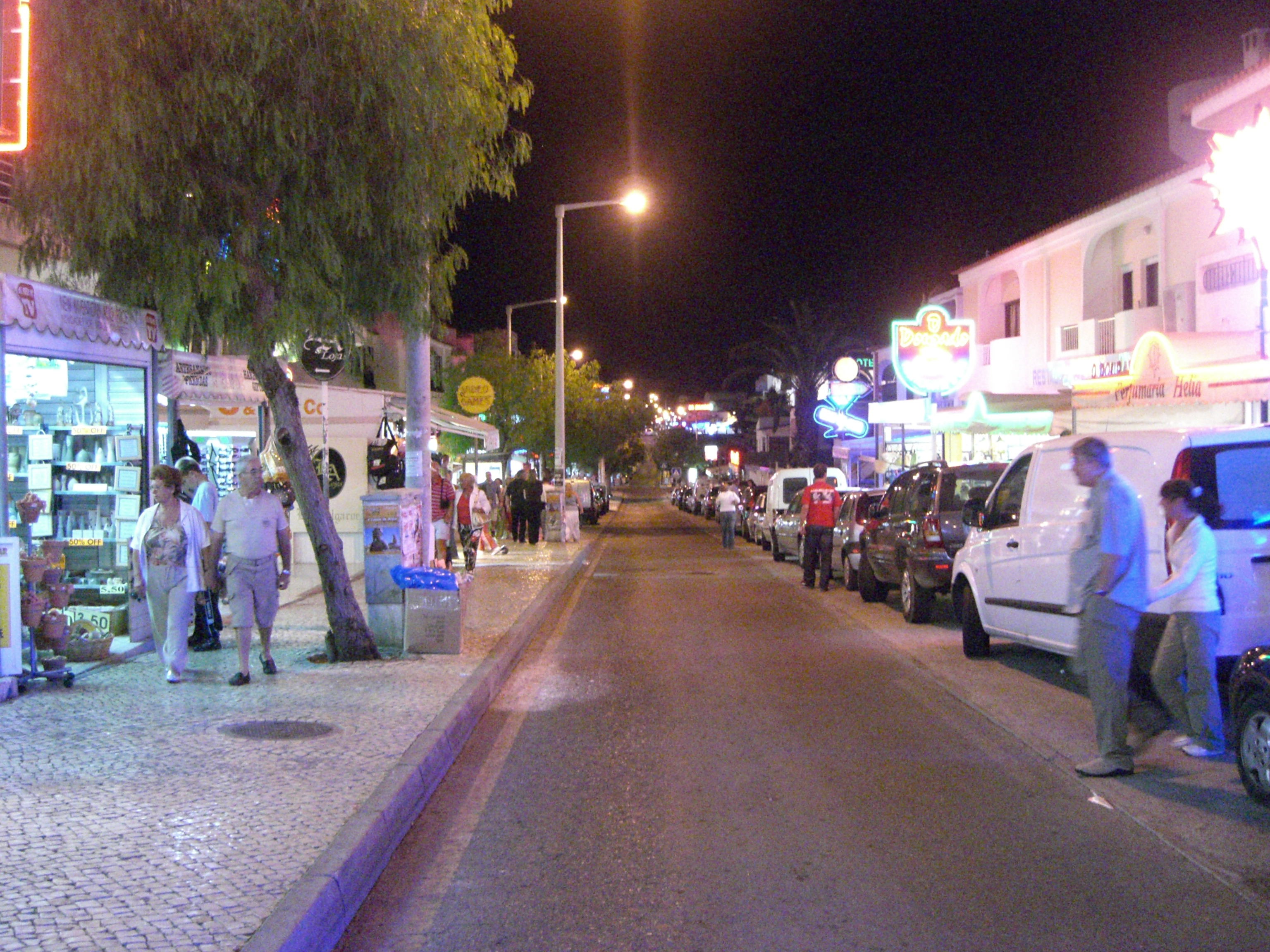 Avenida Dr Francisco Sà Carneiro known colloquially as The Strip, in the Areias de São João of Albufeira, Algarve, Portugal